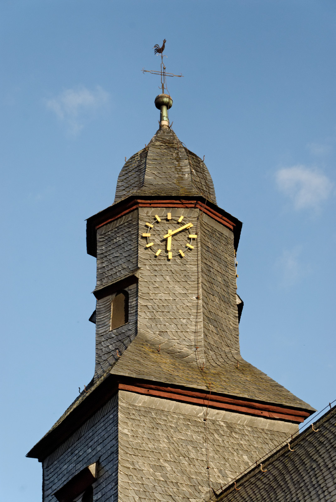 Tower of the protestant church, Dorfstraße in Hüttenberg-Rechtenbach, Germany